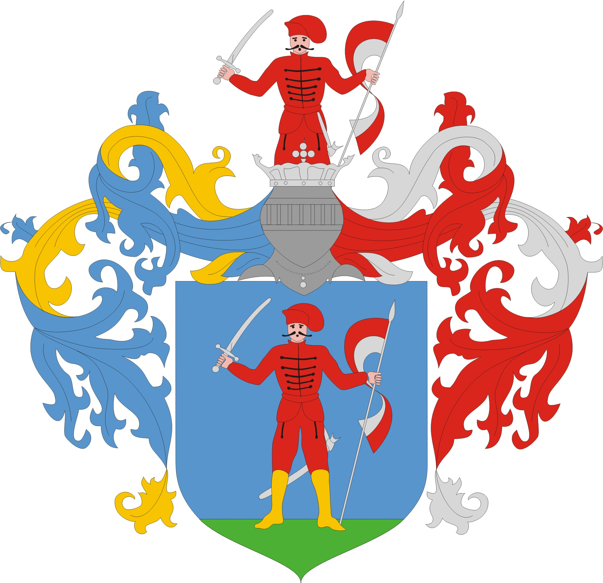 Coat of arms of Hungarian city Mohács